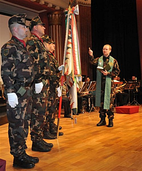 Hungarian military chaplain blessing a flag.